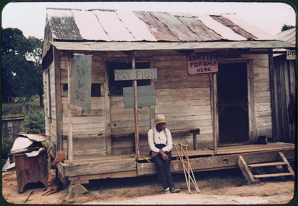 A store with live fish for sale. Vicinity of Natchitoches, Louisiana, July 1940.